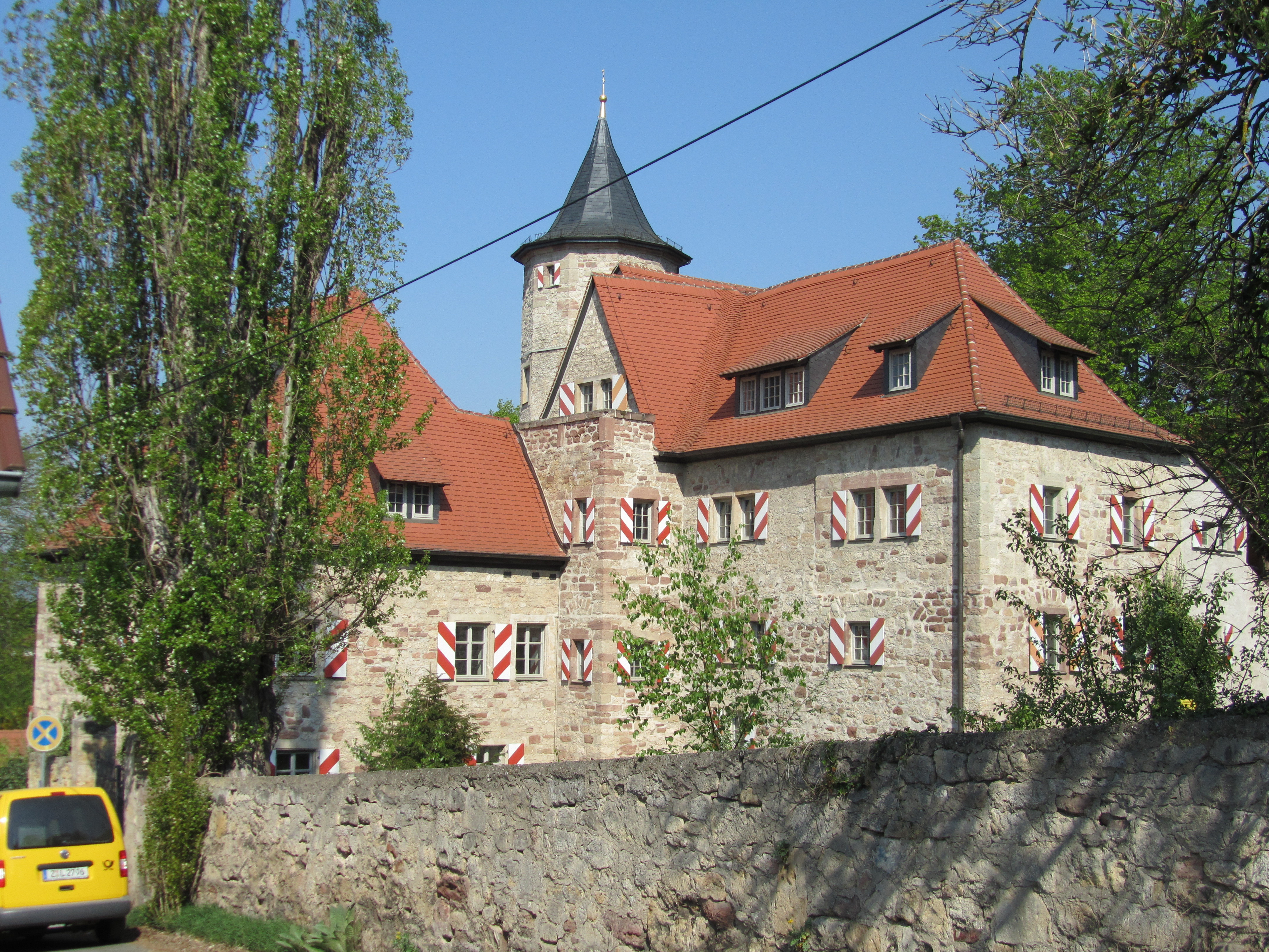 The castle in Jena-Lobeda-Altstadt (Thuringia, Germany)